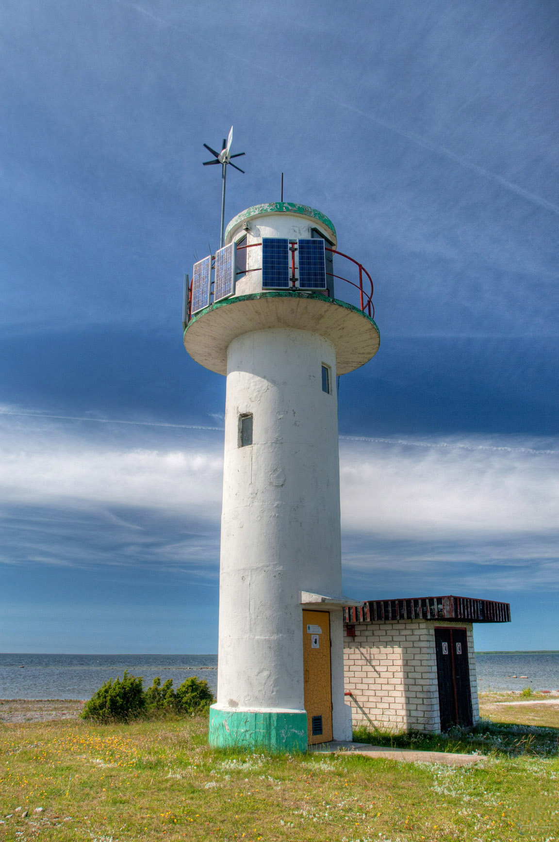 Lõu light beacon